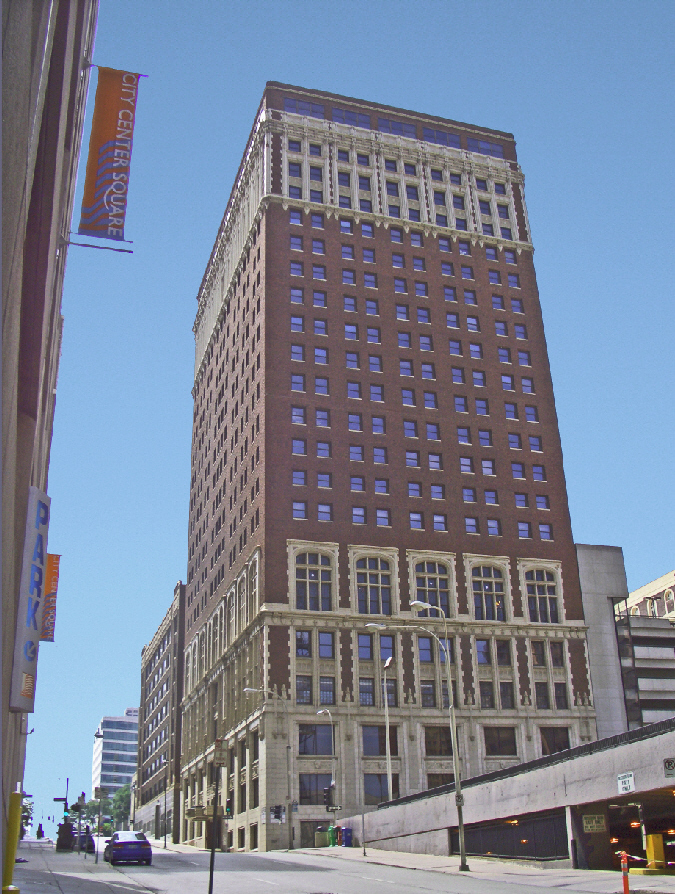 Mark Twain Tower, 106 W. 11th Street, Kansas City, Missouri